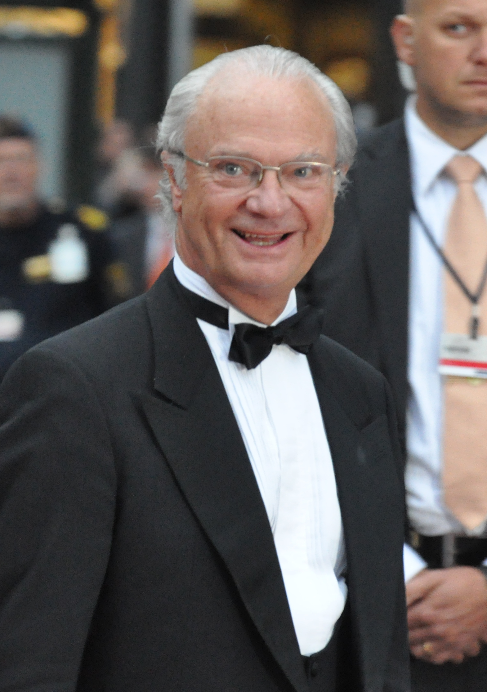 Wedding of Victoria, Crown Princess of Sweden, and Daniel Westling; Arrival of members for the Gouvernment and Swedish and foreign guests of hounour to the Riksdag's Gala Performance at Konserthuset: H.M. Carl XVI Gustaf of Sweden